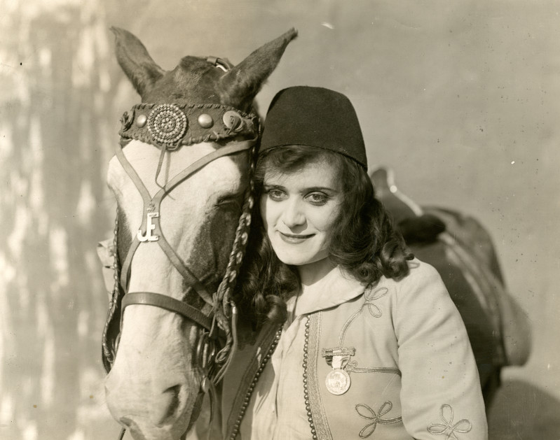 Promotional film still. Back inscription : " From the back: "Theda Bara in Under Two Flags -- in the role of Cigarette, the heroine of Ouida's famous novel, Under Two Flags, Miss Bara scored one of the greatest triumphs of her career. Under Two Flags, first produced a few years ago, has been revised and re-edited, and now is released in a vastly improved form. this photograph shows Miss Bara in a characteristic pose."